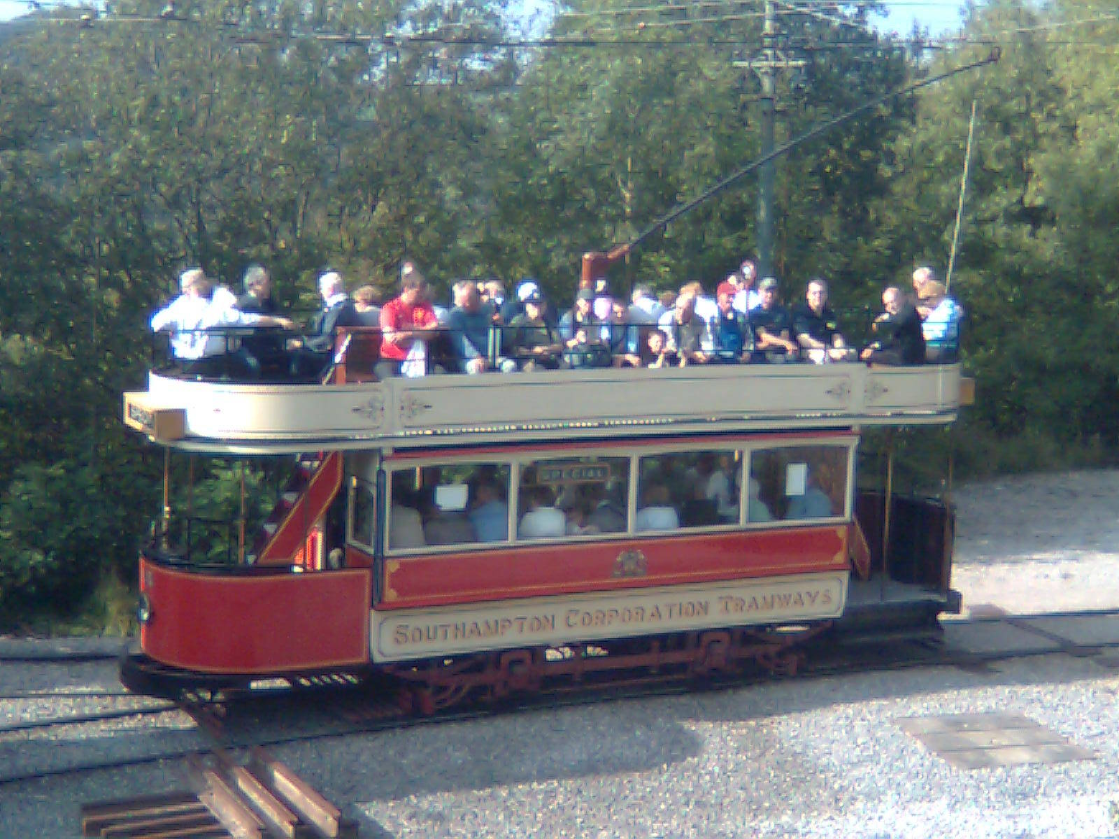 Southampton 45 with a full load seen at Glory Mine at Crich Tramway Village on the 27th September 2008.